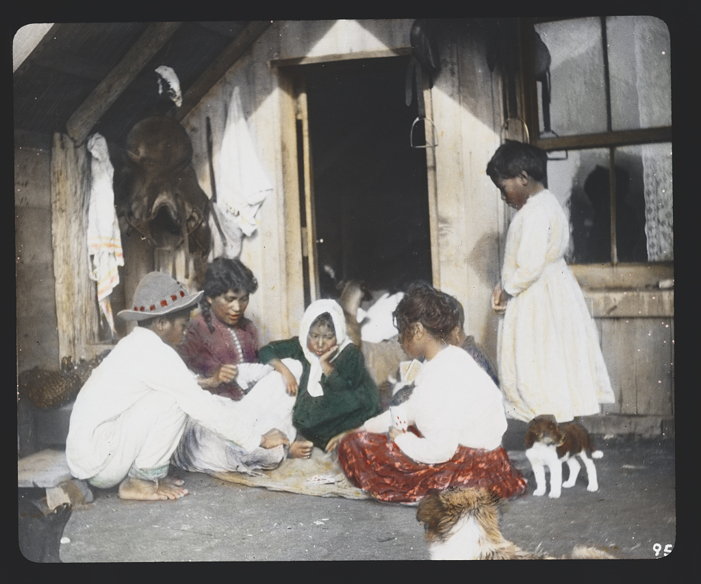 Title: Maori woman and children playing cards on doorstep of home - Whakarewarewa Physical description: 1 slide : lantern, hand colored ; 3.25 x 4 in. Notes: Forms part of: Jackson, William Henry, 1843-1942. World's Transportation Commission photograph collection (Library of Congress).; Gift; William P. Meeker; 1971.